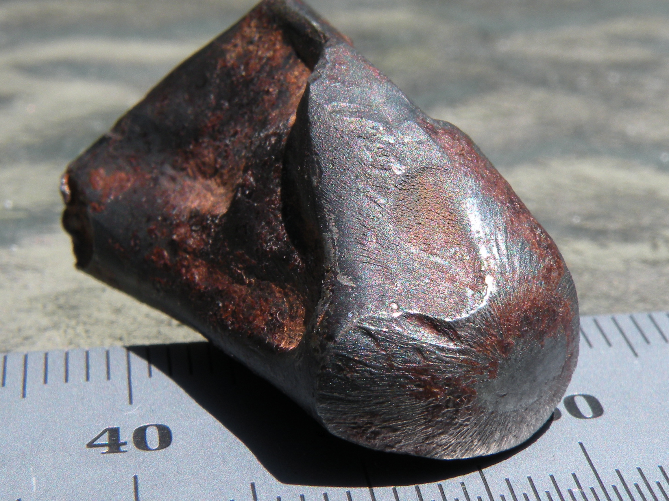 This is a flight-oriented specimen of an iron meteorite called NWA 859, or 'Taza.' It maintained a stable orientation of flight while traveling through the atmosphere. Top scale bar is 1mm, bottom is 1/2 mm.